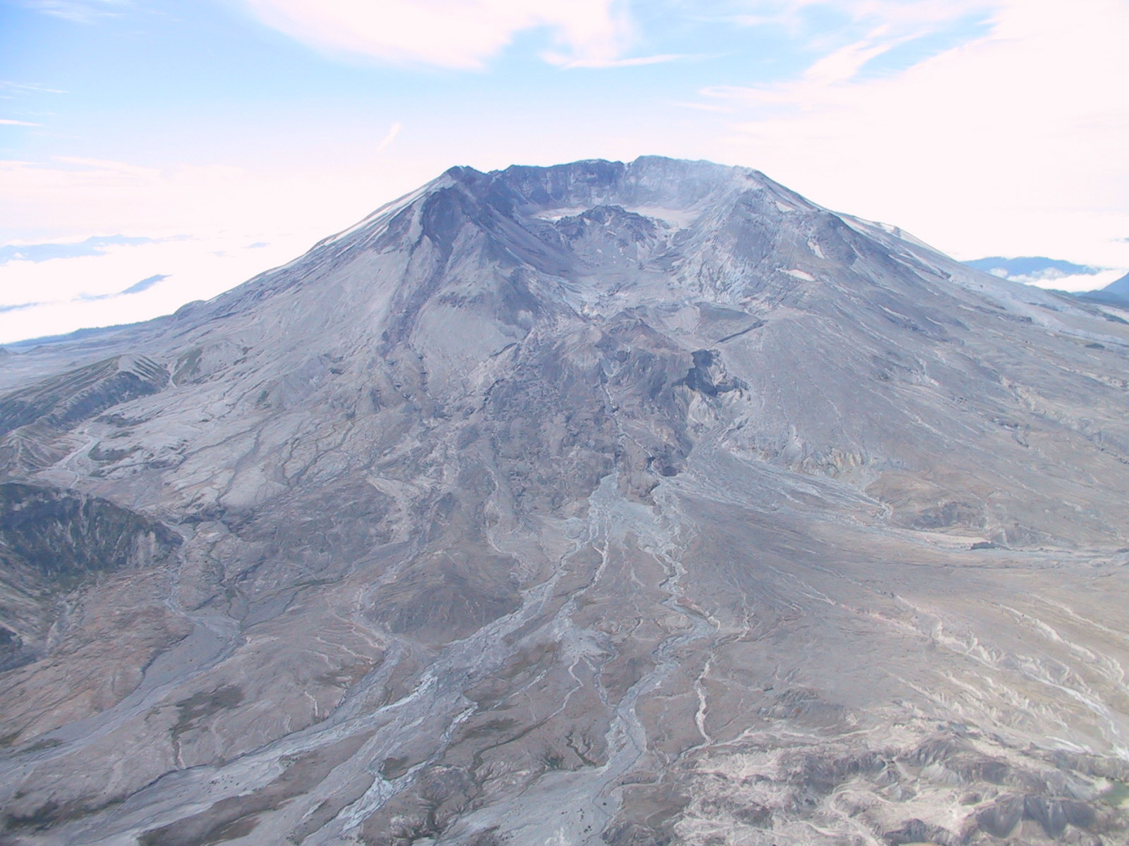 Mount St. Helens viewed from the North, August 2002